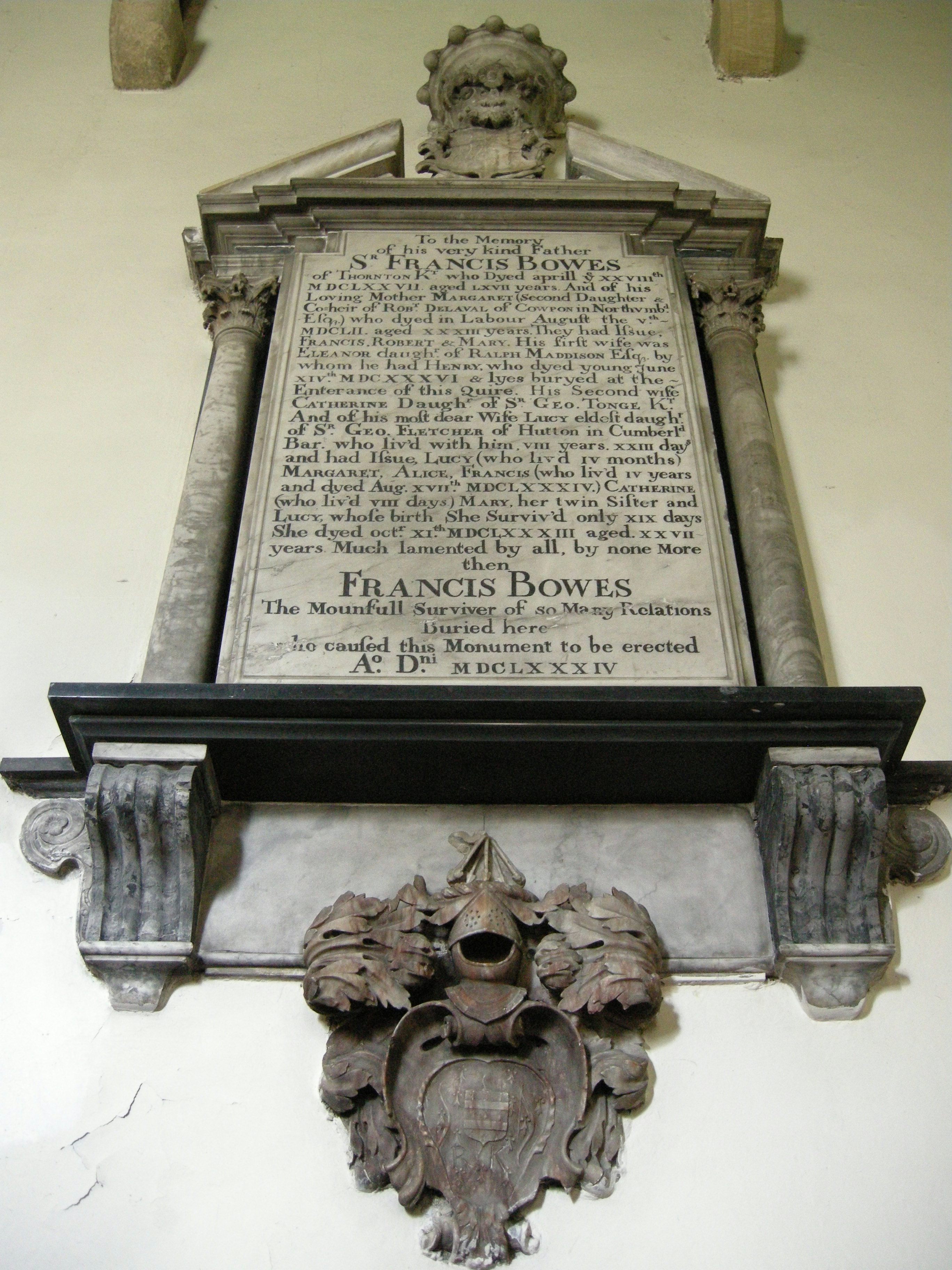 St Edwin's church, High Coniscliffe, County Durham, England. Showing the Francis Bowes monument (1684) in the chancel.